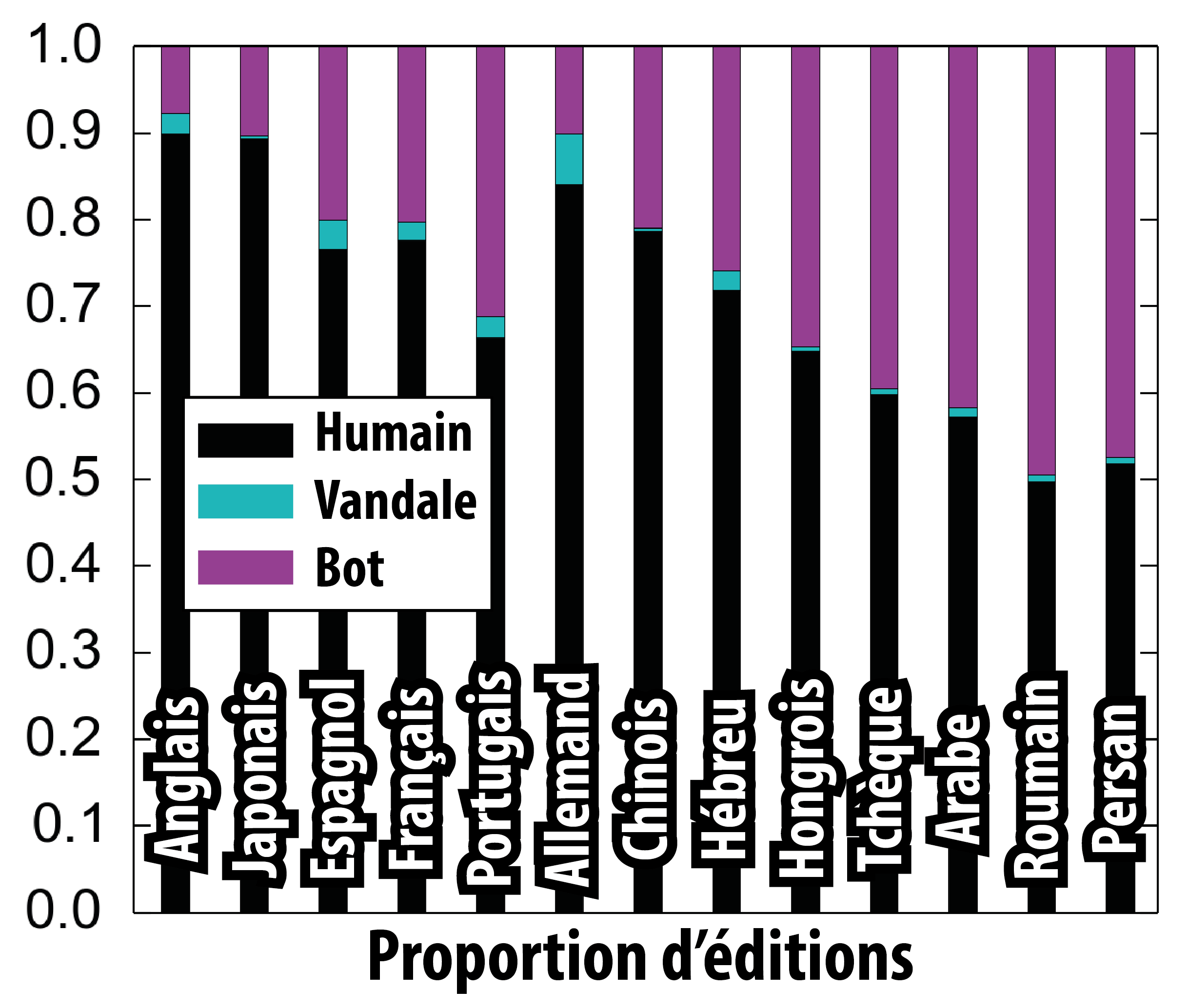 Proportion of edits on wikipedia which are from humans, vandals and bots, translated into french from paper